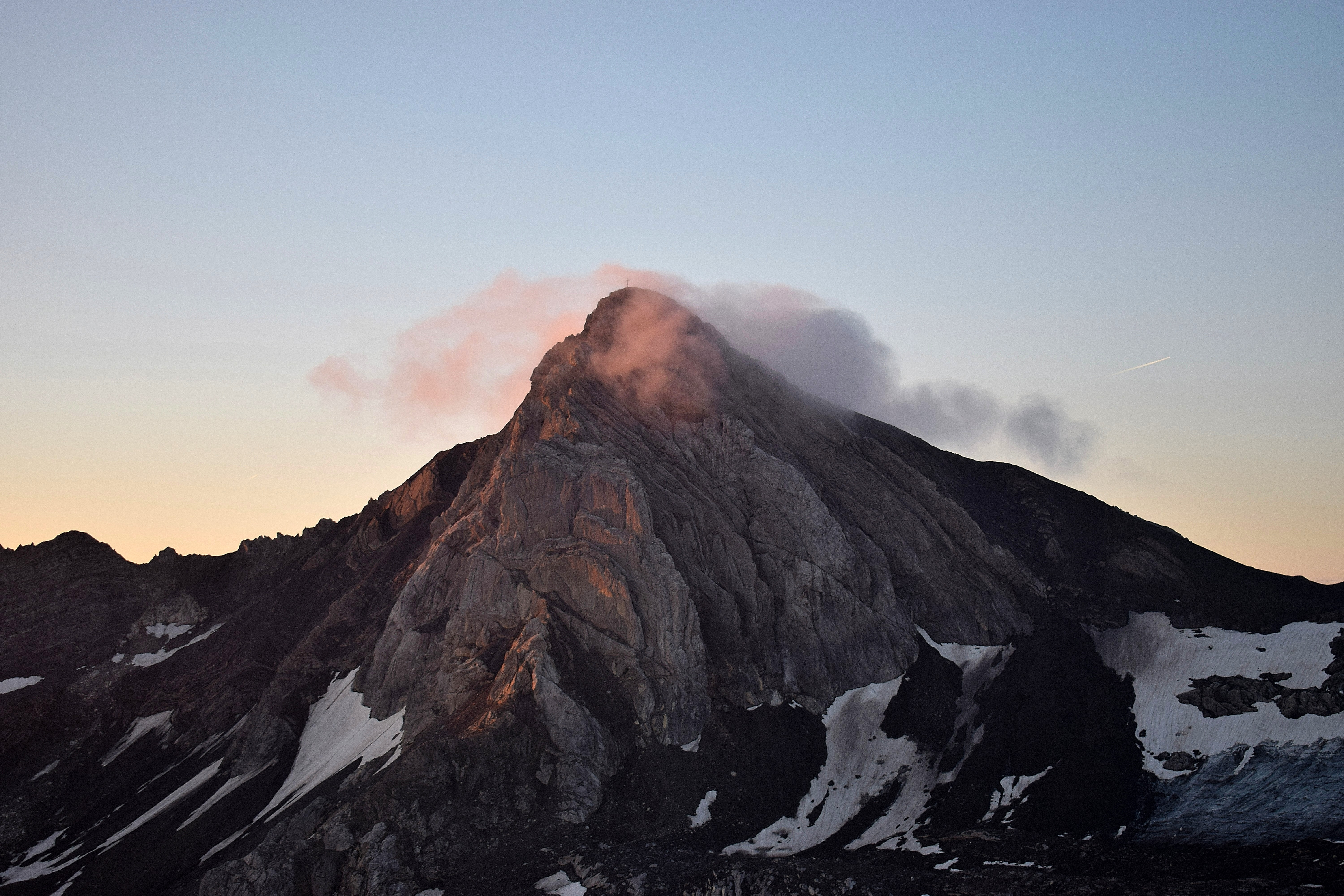 Schesaplana